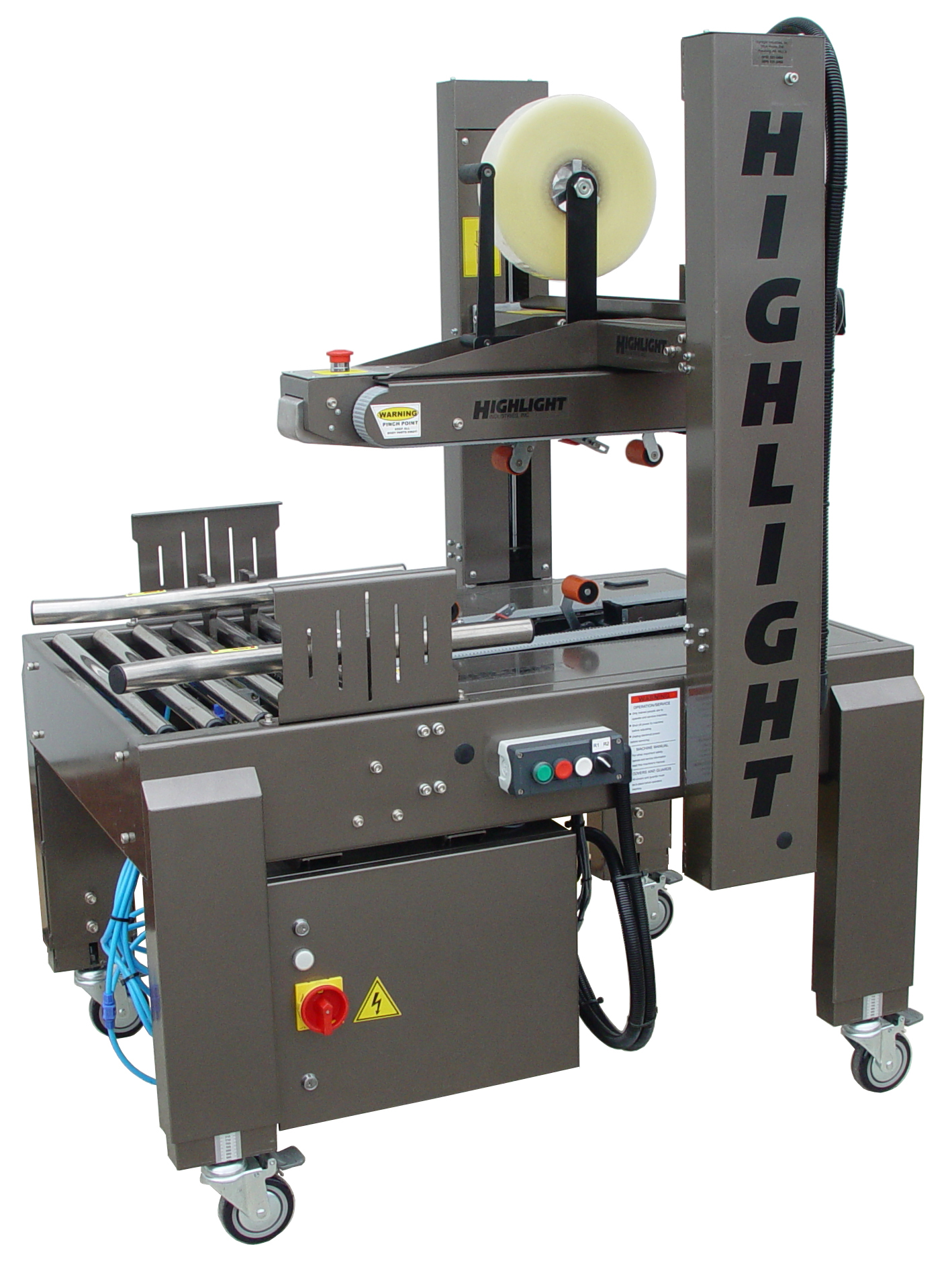 An automatic box sealing machine, the Magnum 3500 made by Highlight Industries.